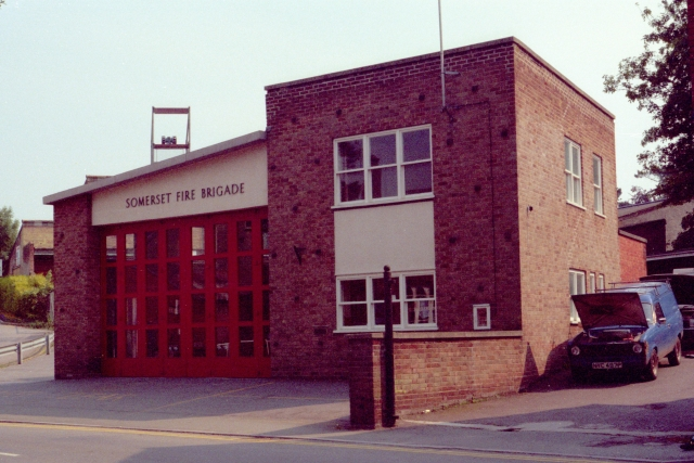 Wellington Fire Station. Wellington Fire Station, North Street, Wellington, Somerset.